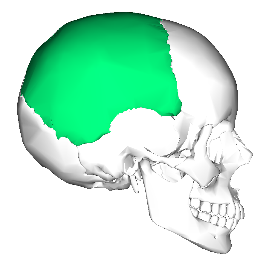 Parietal bone (shown in green).